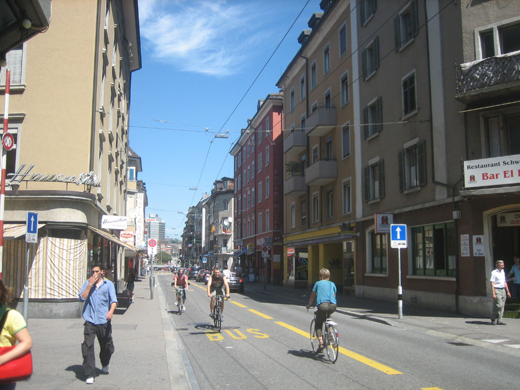 Langstrasse view toward Limmatplatz